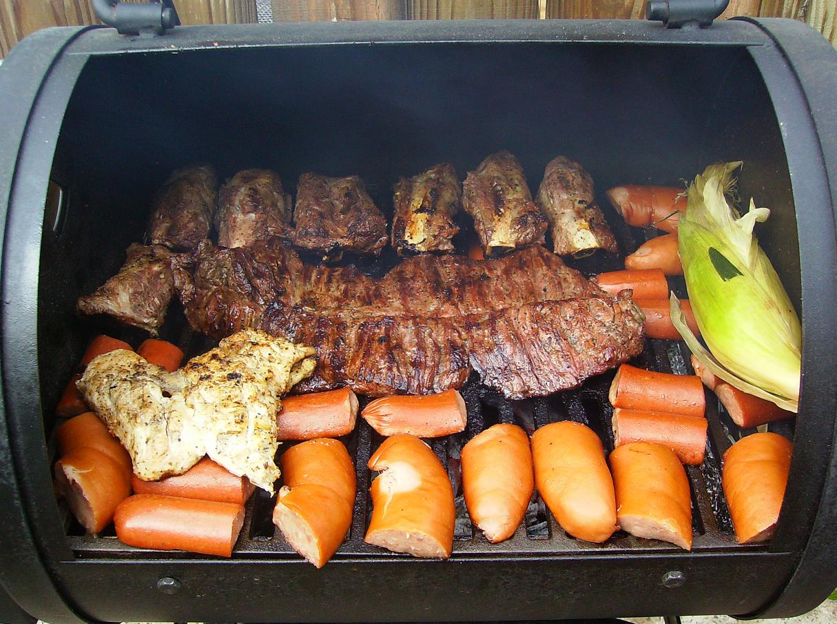 picture showing a typical Laredo, Texas BBQ grill Fajita center, Chicken left, Ribs above, Sausage bottom, Corn right seasons used lime, salt, pepper, and season all